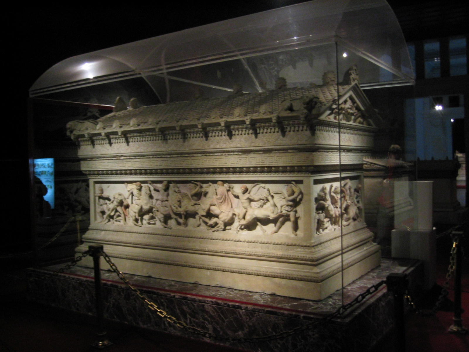 Istanbul, Turkey